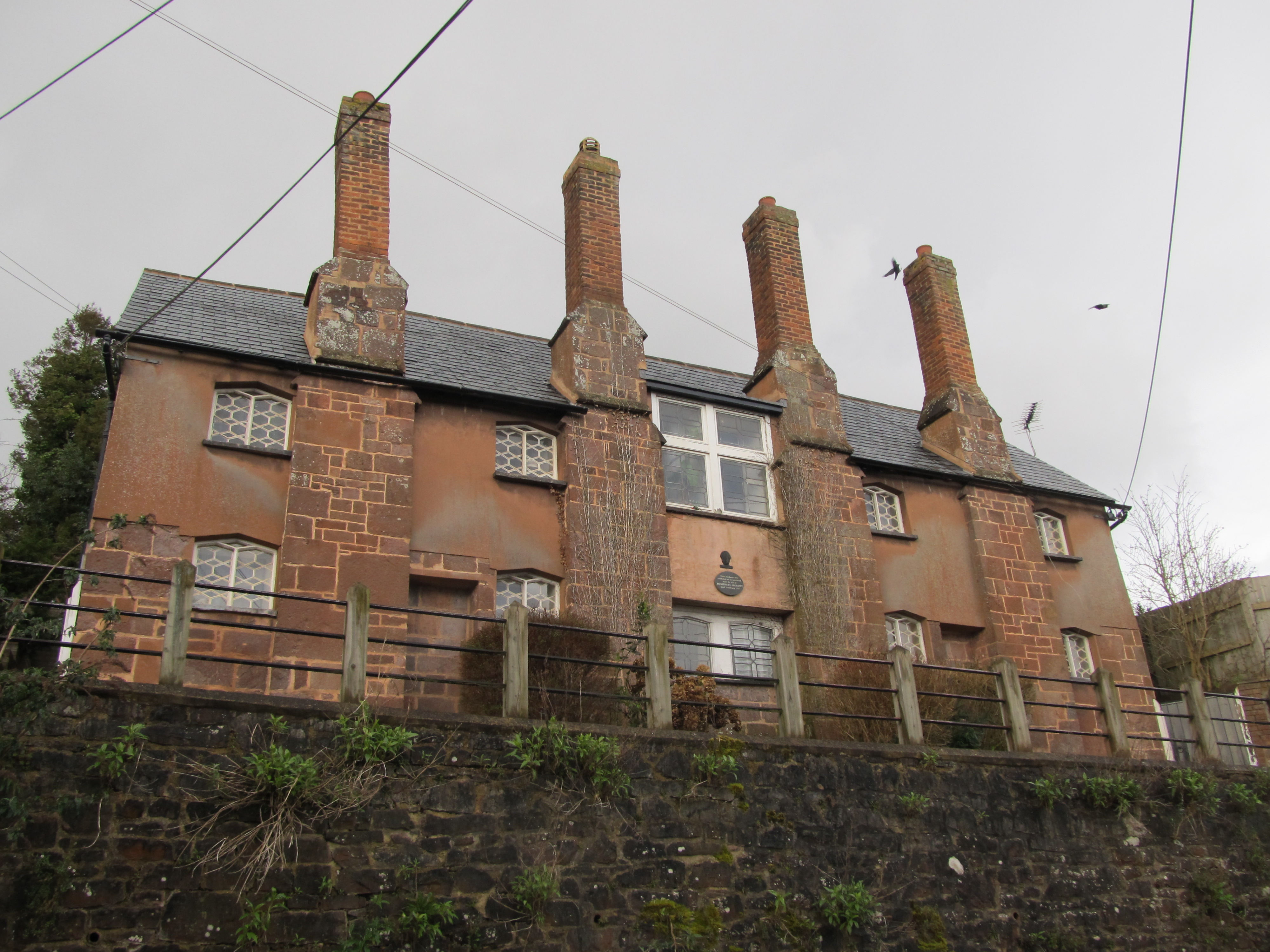 photo from road